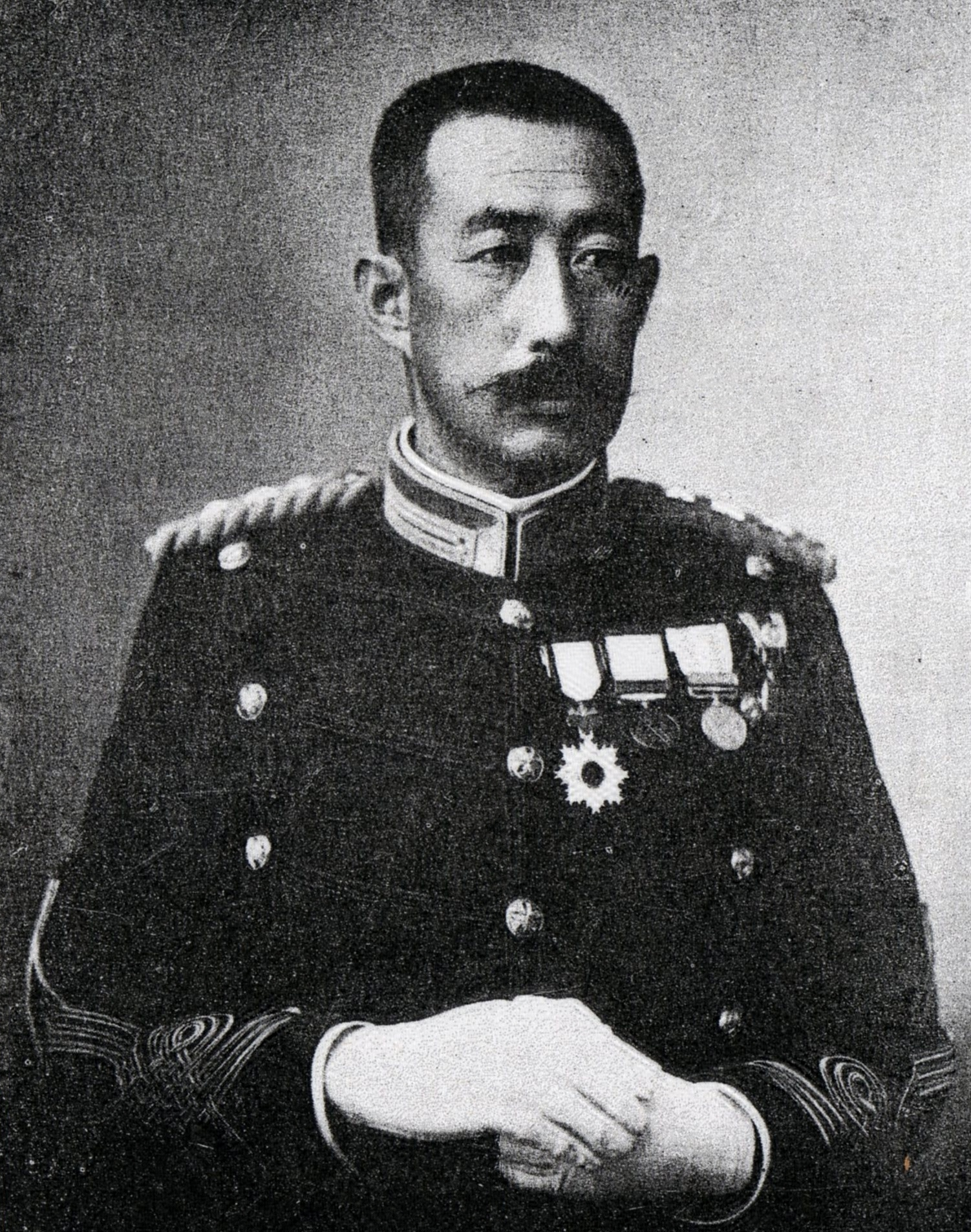 Matsudaira Kataharu is an Imperial Japanese Army Capatain,and the son of Matsudaira Katamori